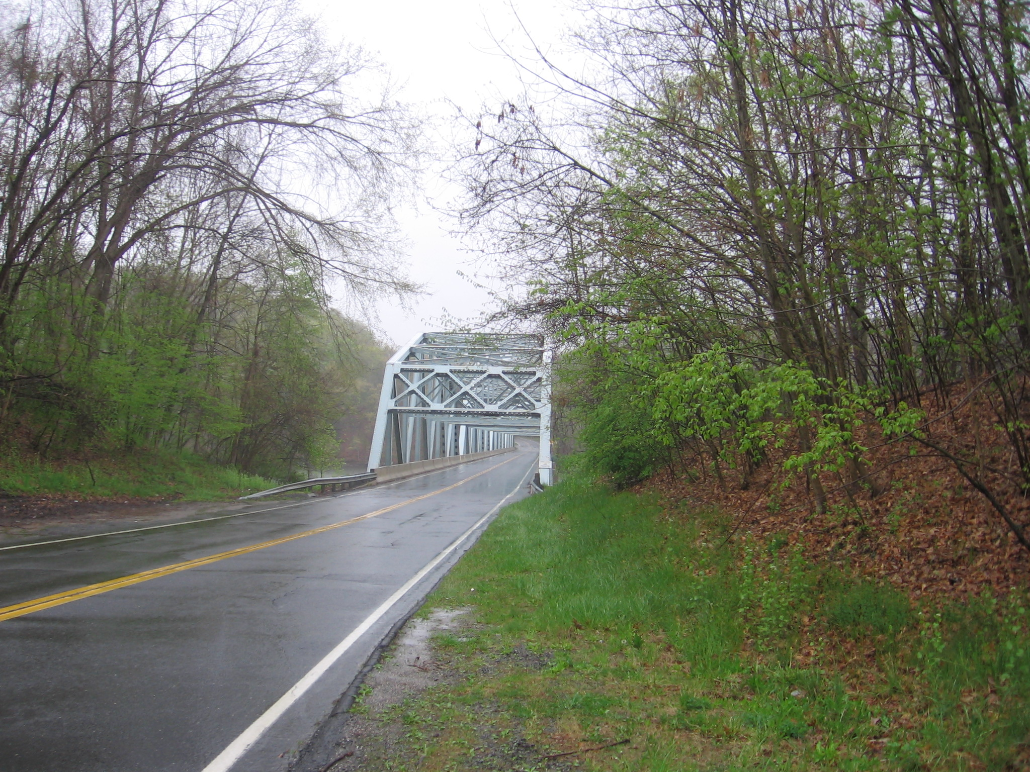 The Southville Bridge carries Connecticut Route 133 from Brookfield to Bridgewater over Lake Lillinonah. View is looking north (or north-northeast) from Obtuse Hill Road in Brookfield toward the lake.